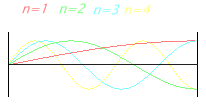 Fixed-free resonance